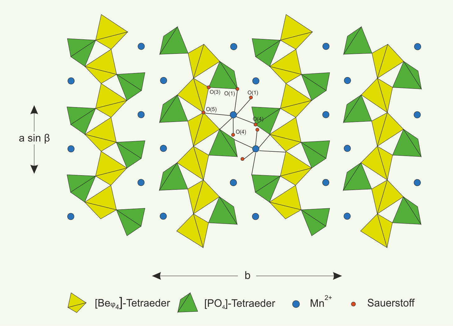 Part of the väyrynenite structure, projected projected down the c axis. Chains of Be tetrahedra are linked by corner-sharing of O(5) atoms and are flanked on the sides by (PO4) tetrahedra and form ribbons along the c axis. These ribbons are linked in the b direction by manganese cations in octahedral which are shown interstitially. Reference: D. M. Huminicki & F. C. Hawthorne, (2000), The Canadian Mineralogist. Band 38, 2000, p. 1425–1432.